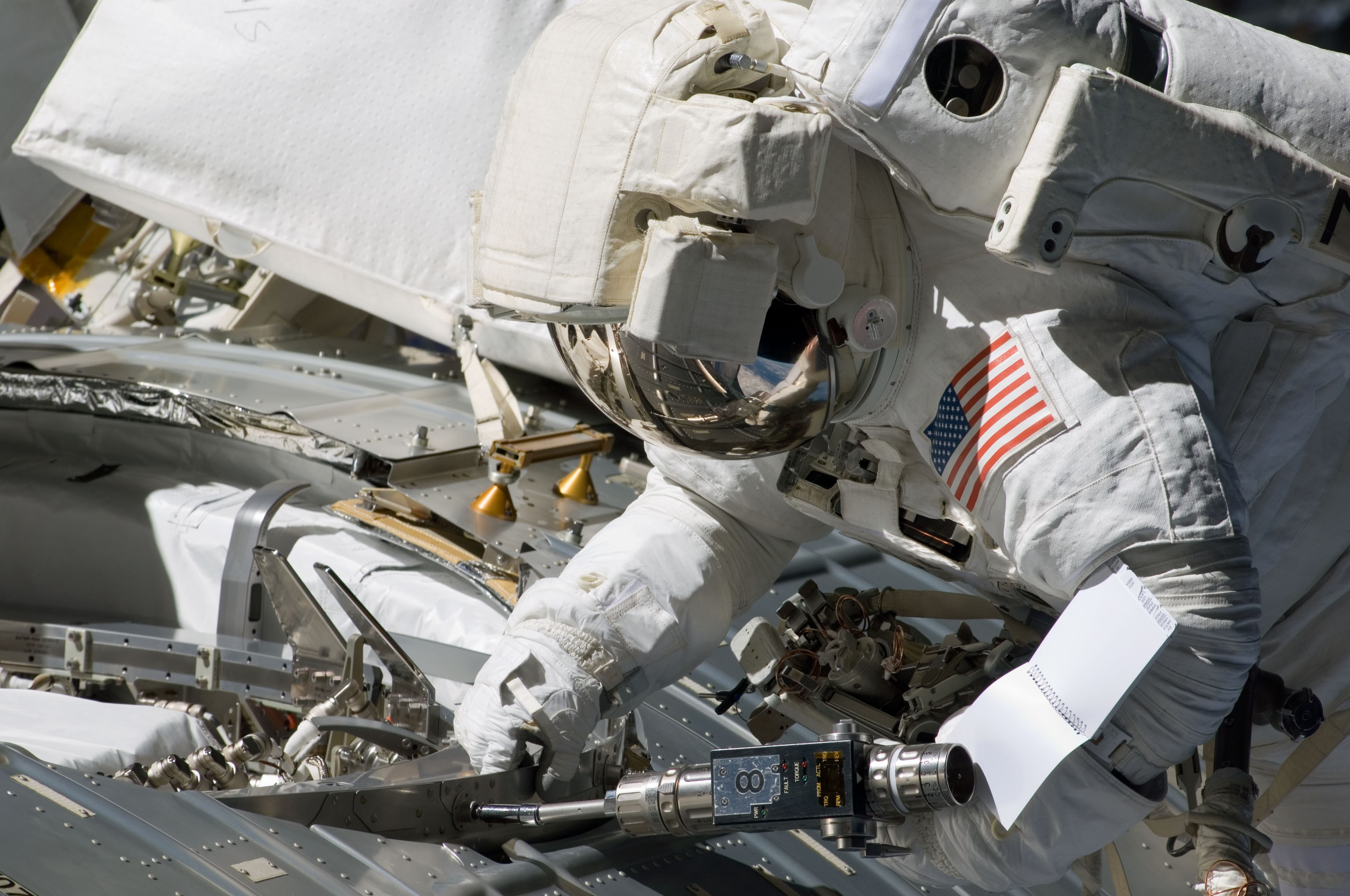 Astronaut Ron Garan, STS-124 mission specialist, participates in the mission's second scheduled session of extravehicular activity (EVA) as construction and maintenance continue on the International Space Station. During the seven-hour, 11-minute spacewalk, Garan and astronaut Mike Fossum (out of frame), mission specialist, installed television cameras on the front and rear of the Kibo Japanese Pressurized Module (JPM) to assist Kibo robotic arm operations, removed thermal covers from the Kibo robotic arm, prepared an upper JPM docking port for flight day seven's attachment of the Kibo logistics module, readied a spare nitrogen tank assembly for its installation during the third spacewalk, retrieved a failed television camera from the Port 1 truss, and inspected the port Solar Alpha Rotary Joint (SARJ).